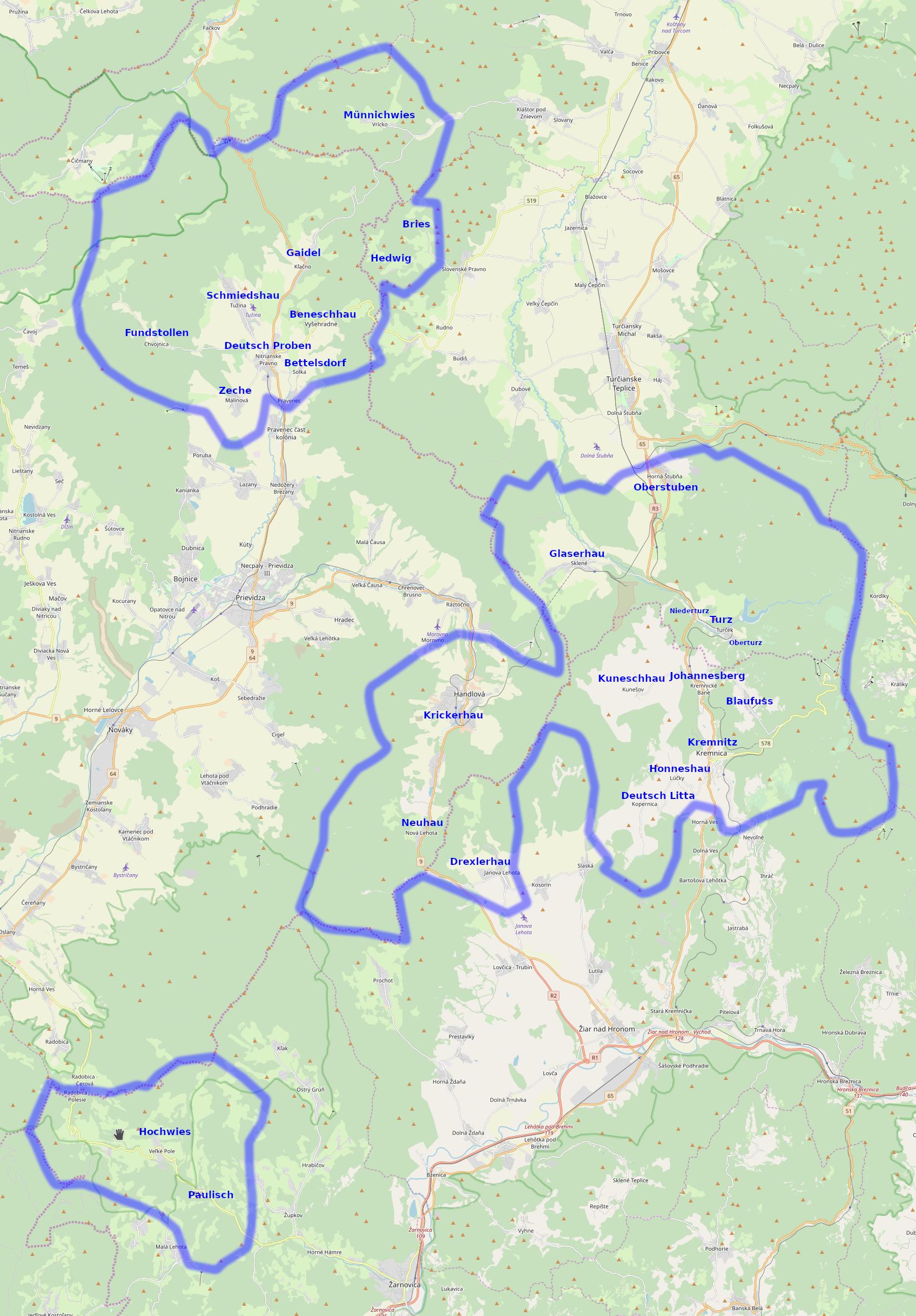 Hauerland (also called Kremnitz-Deutschprobener Sprachinsel) is the German name for a region presently located in central Slovakia once inhabited by Carpathian Germans.